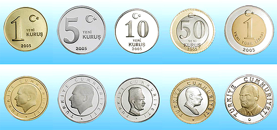 Coins of New Turkish Lira (YTL) and New Kurus (2005-2008)